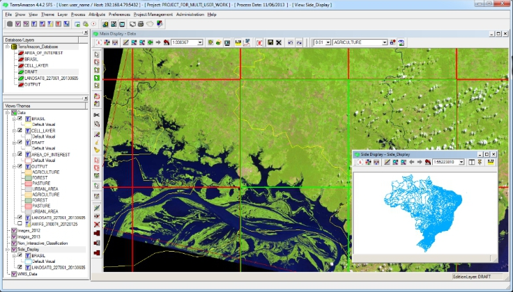 Screenshot of TerraAmazon system